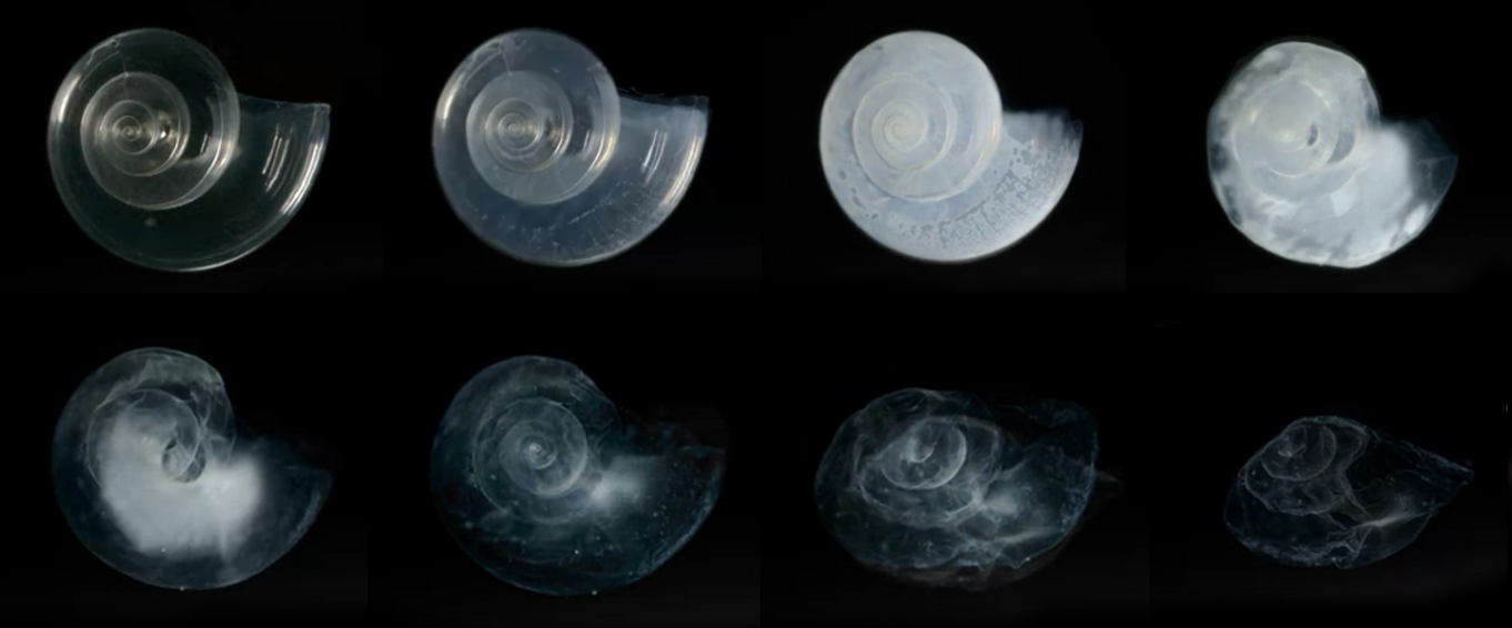 In laboratory experiments, this pterapod shell dissolved over the course of 45 days in seawater adjusted to an ocean chemistry projected for the year 2100.